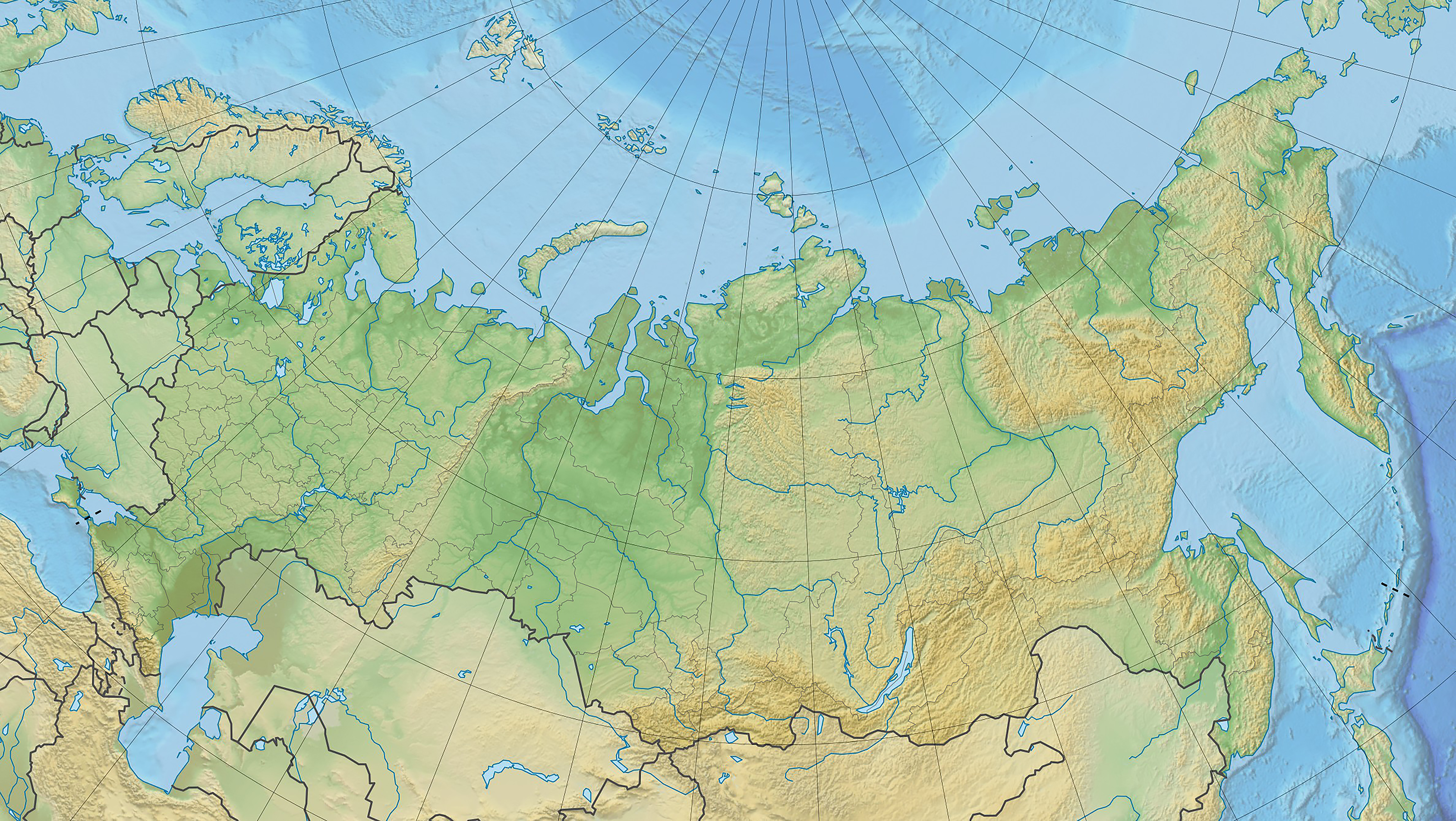 Physical location map of Russia (Kerch Strait and Kuril Islands disputed borders dotted)